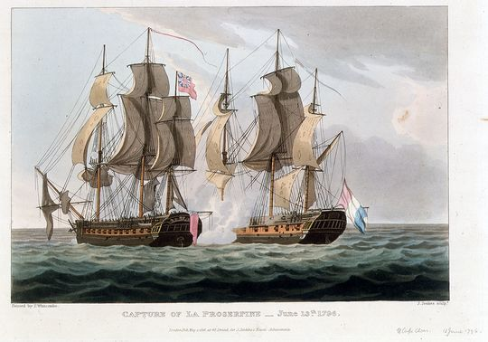 Capture of La Proserpine - June 13th, 1795.